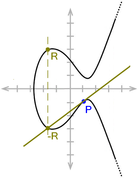 Doubling P on elliptic curve